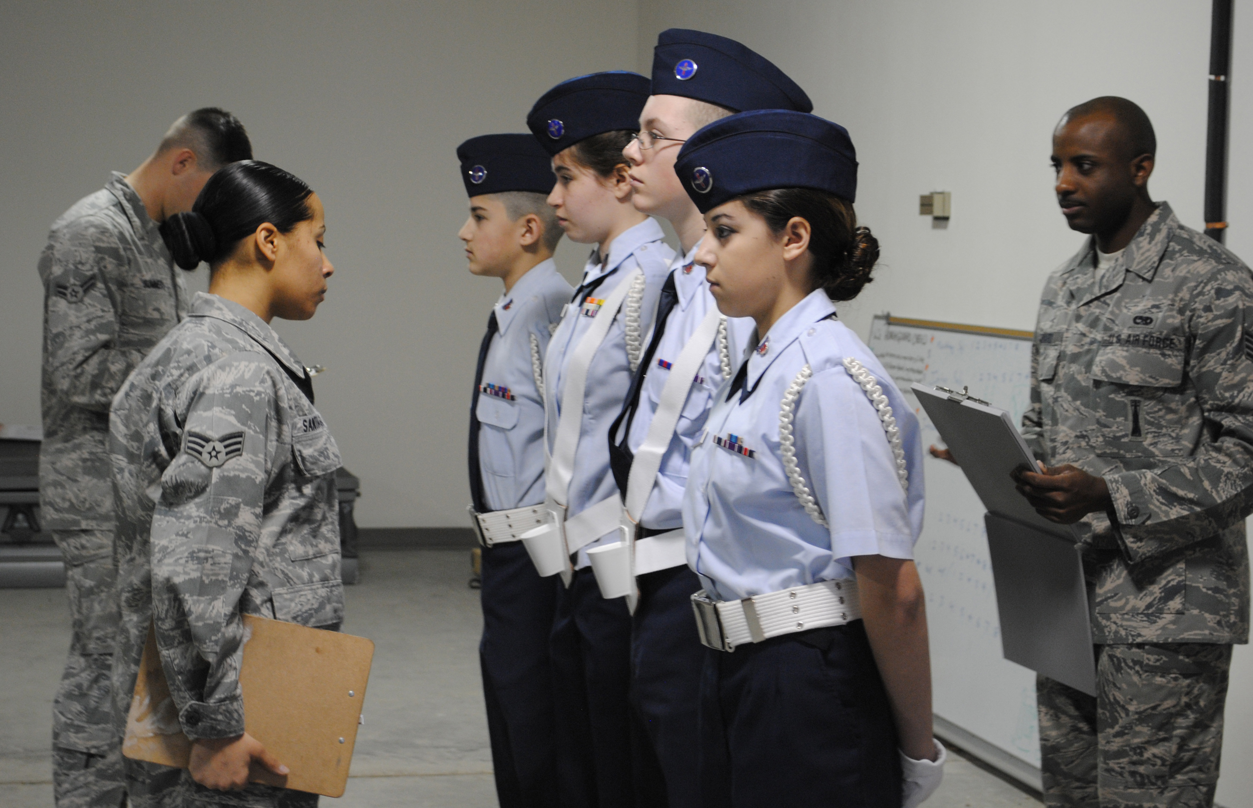 Members of Malmstrom's Honor Guard served as the judges for the Malmstrom Civil Air Patrol six-part evaluation March 26. Here they perform an in-ranks inspection. The judges are Senior Airman Miriam Santiago, 341st Force Support Squadron services chef technician; Airman 1st Class Cory Summers, 341st Civil Engineer Squadron pavement and equipment apprentice; and at rear, Staff Sgt. Elijah Leonard, 341st Maintenance Operations Squadron controller. (U.S. Air Force photo/Airman Cortney Hansen)